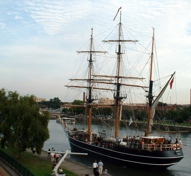 Tall ship at Bristol Harbour festival 2004. The ship is seen in the Cumberland Basin awaiting entrance to the City Docks.